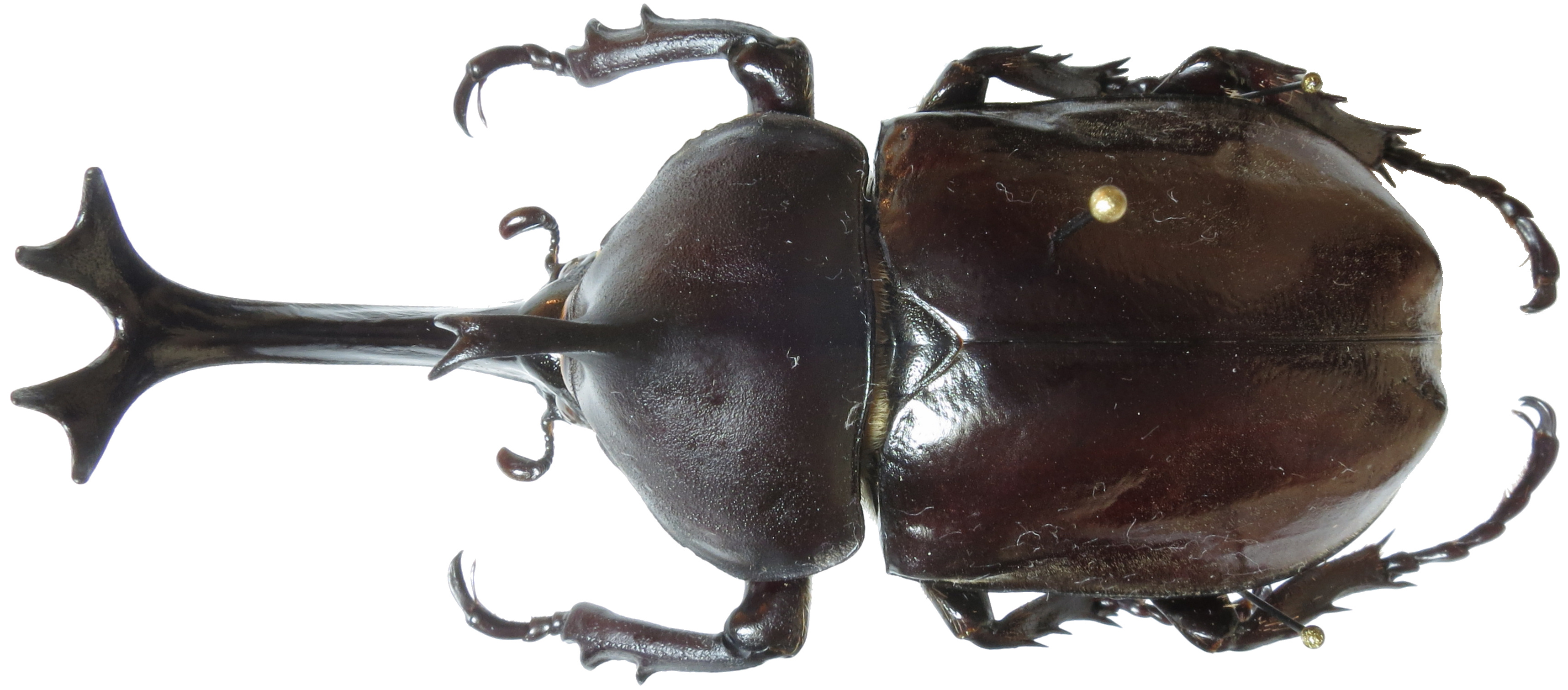 Allomyrina dichotoma from Nam-To, Taiwan